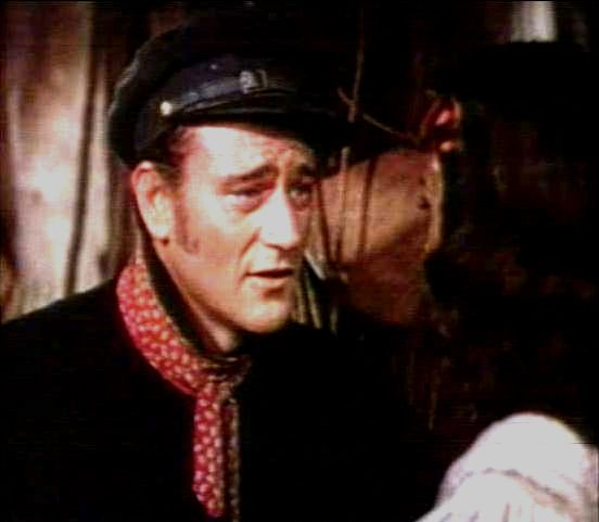 Screenshot of John Wayne from the trailer for the film Reap the Wild Wind